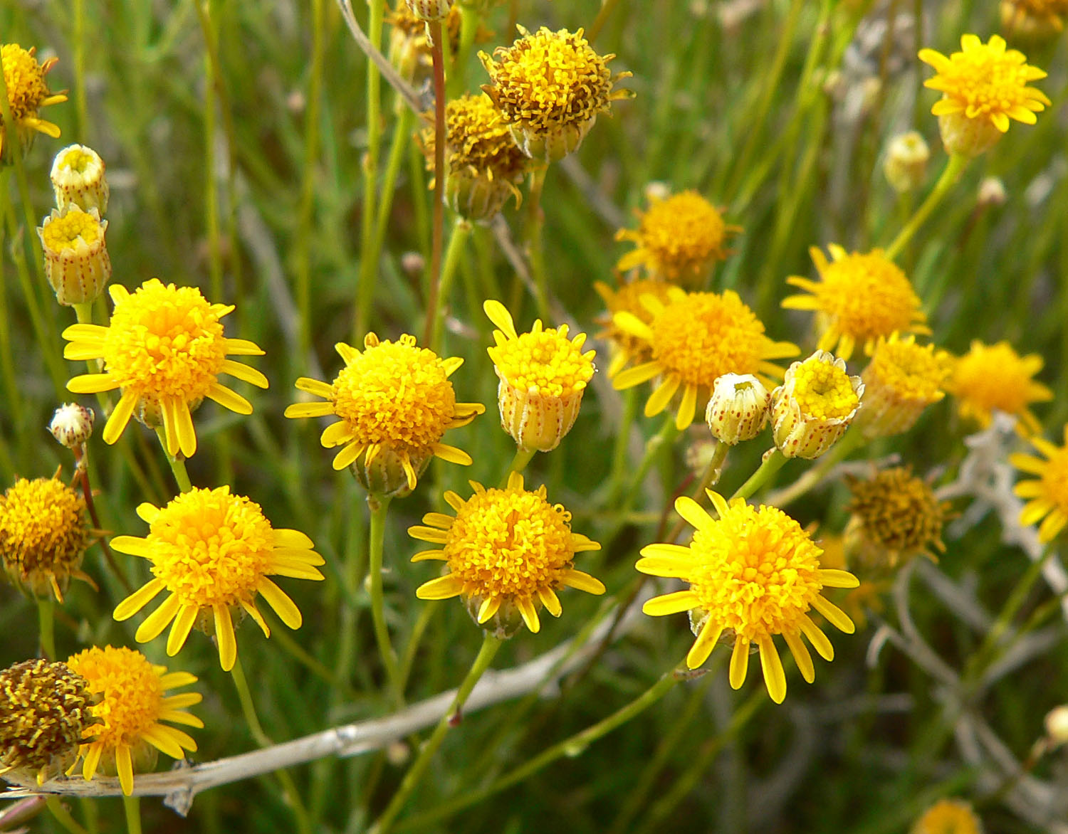 Photo of Thymophylla pentachaeta var. belenidium in the desert west of Las Vegas, Nevada (just off the end of Tropicana Avenue)